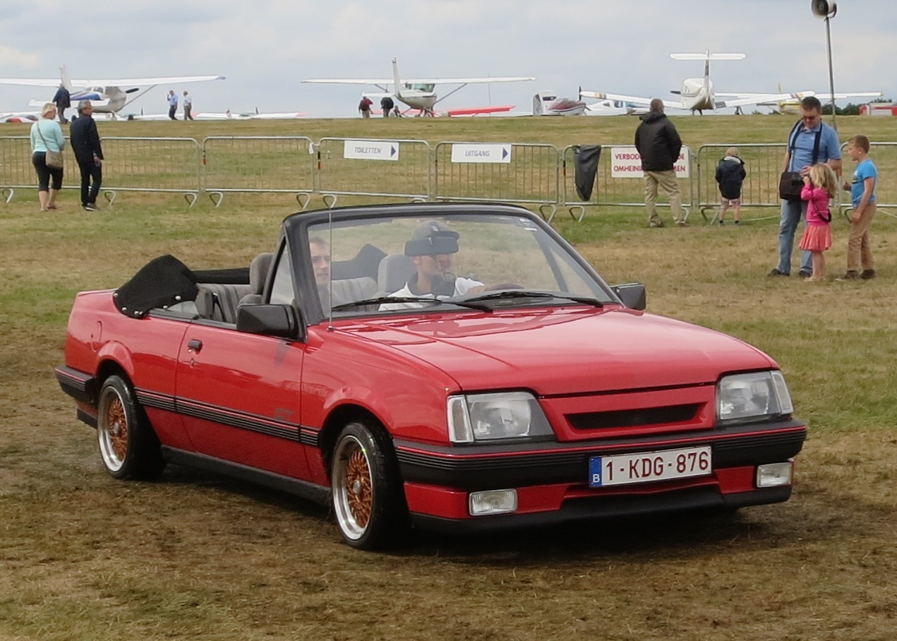 Opel Ascona Cabriolet